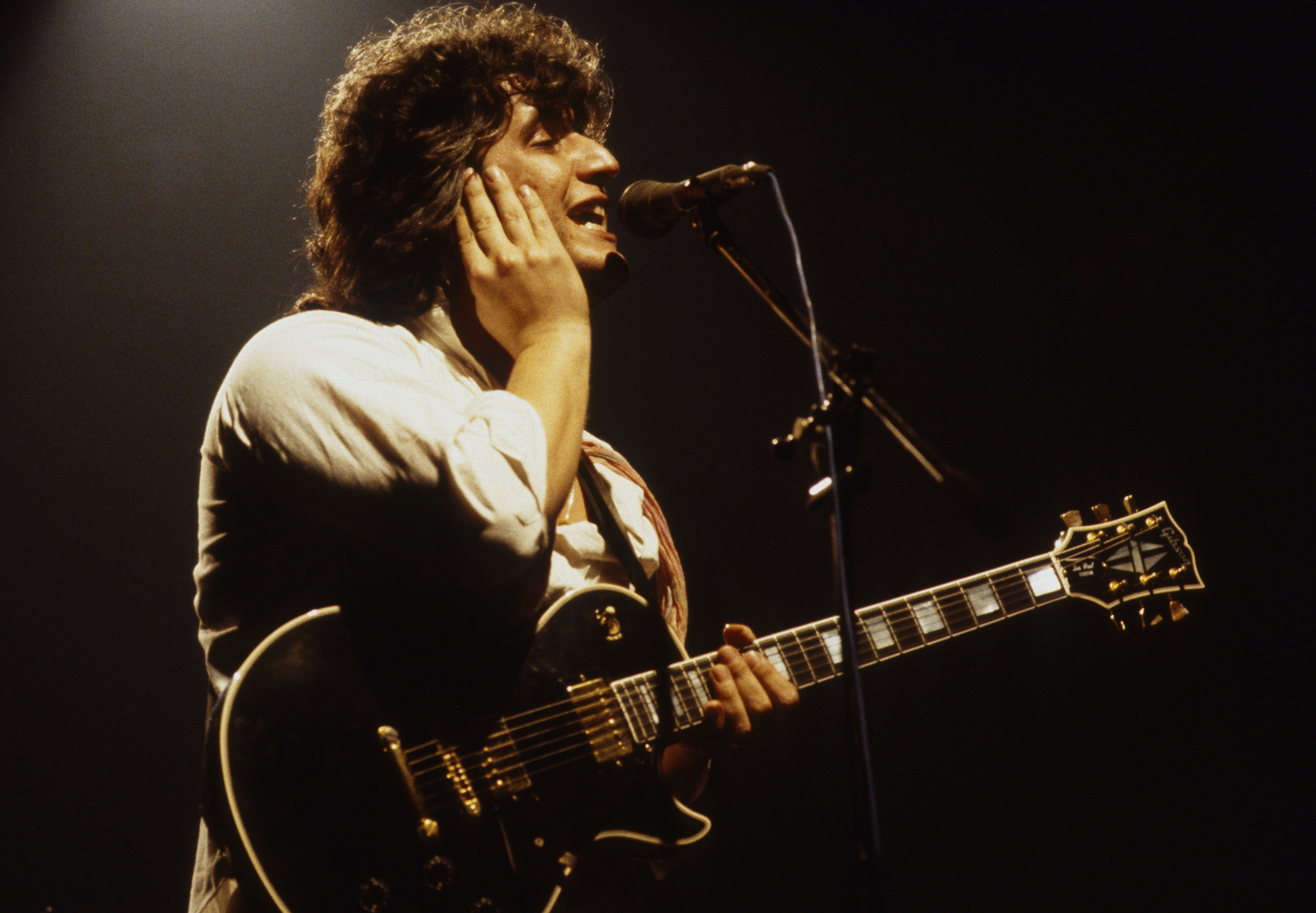 pino daniele